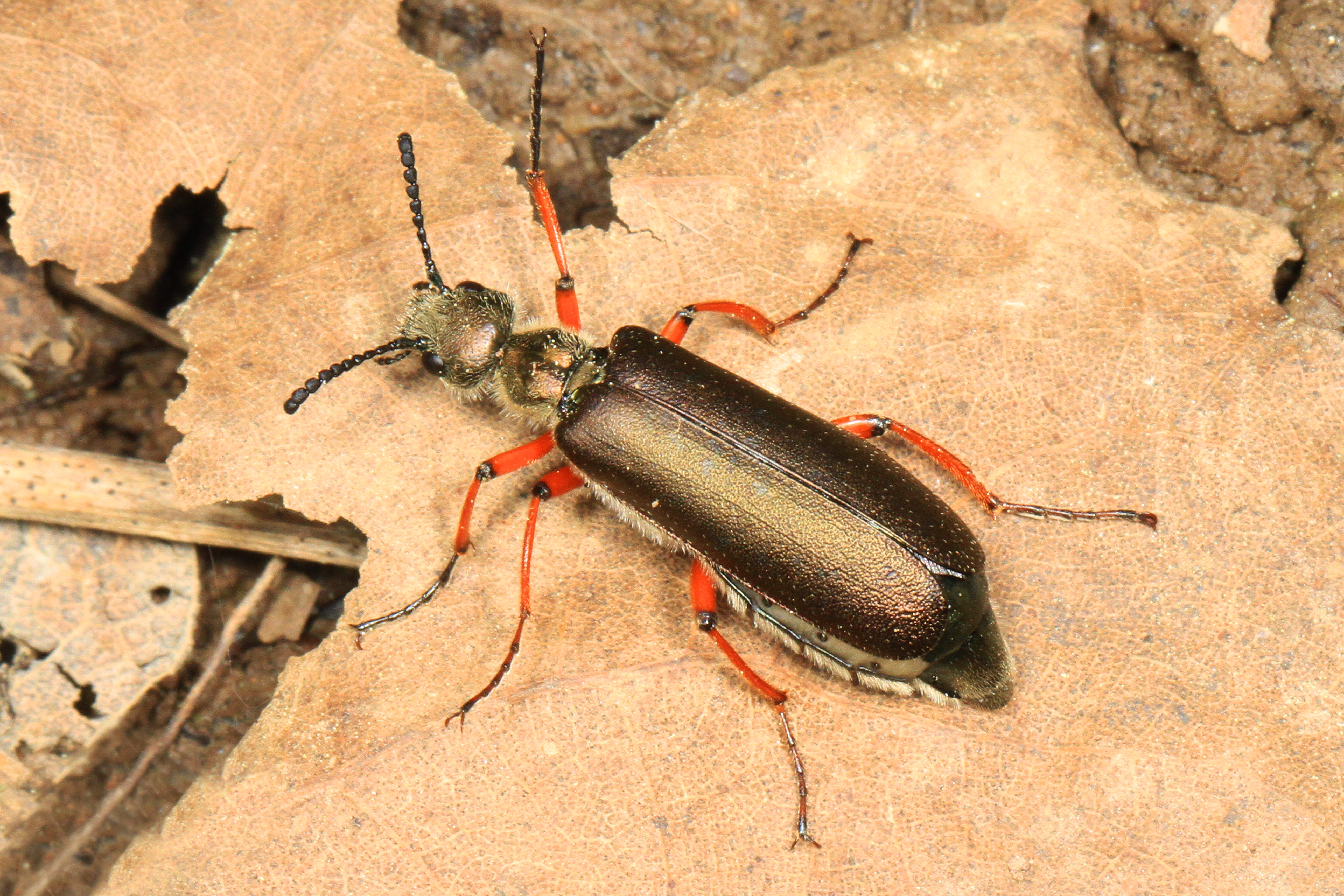 366 - Blister Beetle - Lytta aenea, Julie Metz Wetlands, Woodbridge, Virginia.